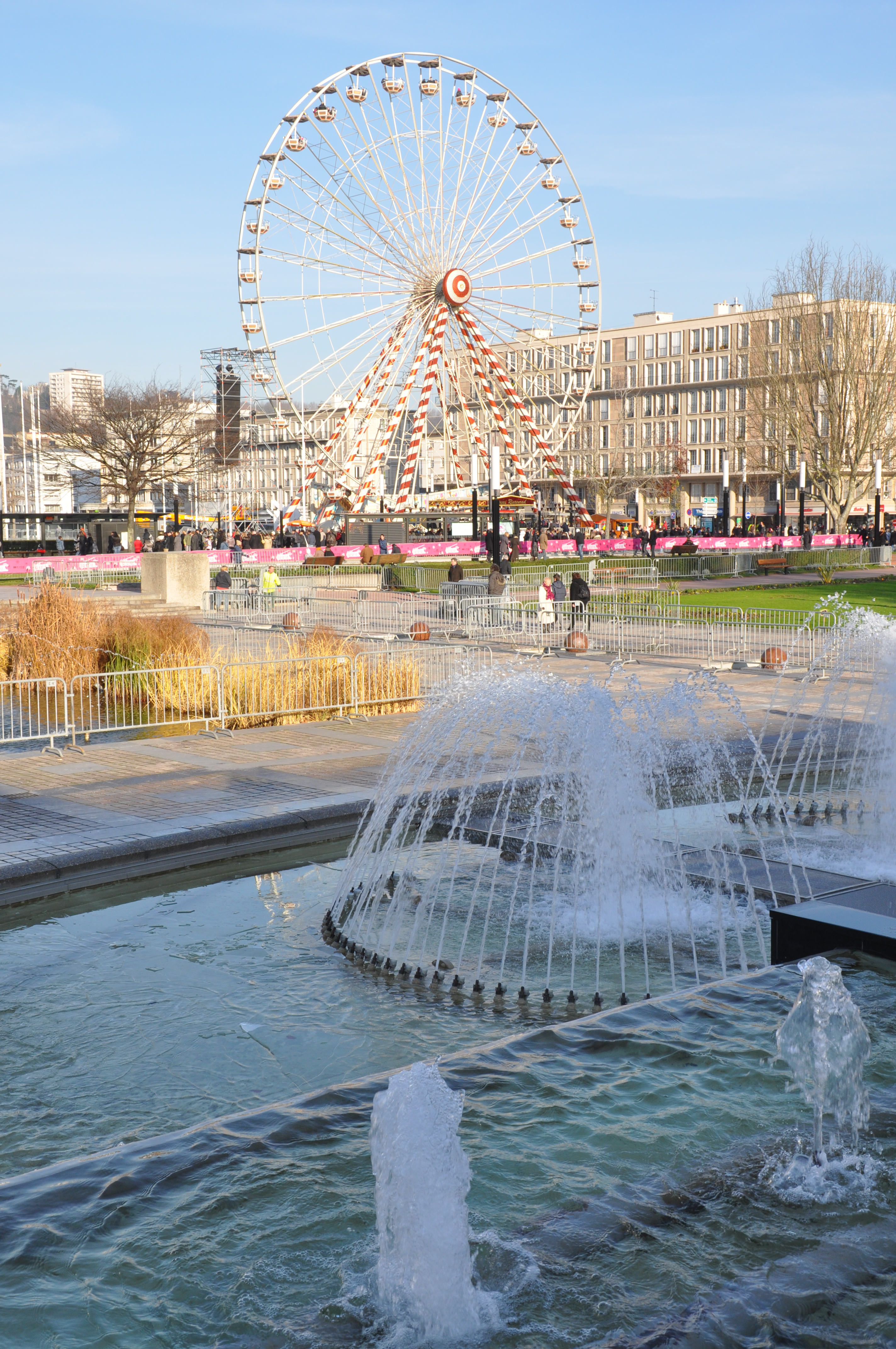 Inauguration of tramway of Le Havre (Normandy) and ferris wheel